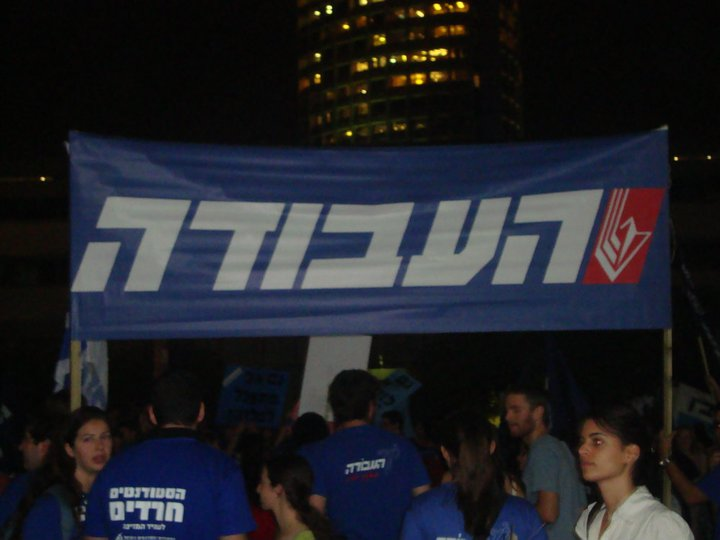 the Israeli Labour party young body in a demonstrasion